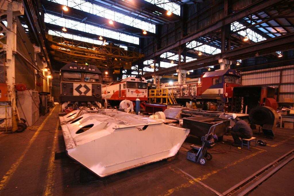 Newport Workshops, Melbourne, Australia. Pacific National BL class, SCT G class, V/Line N class diesel locomotives.